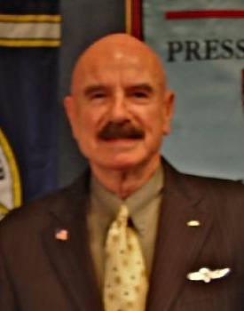 G. Gordon Liddy, famous for his involvement (and ultimate imprisonment) in the Watergate scandal